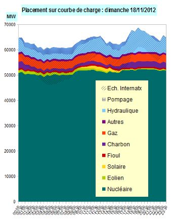 Dispatching power plants on the French load curve (merit order), sunday 18th nov. 2012 (hachured : export and pumping) data source : RTE (french grid operator)